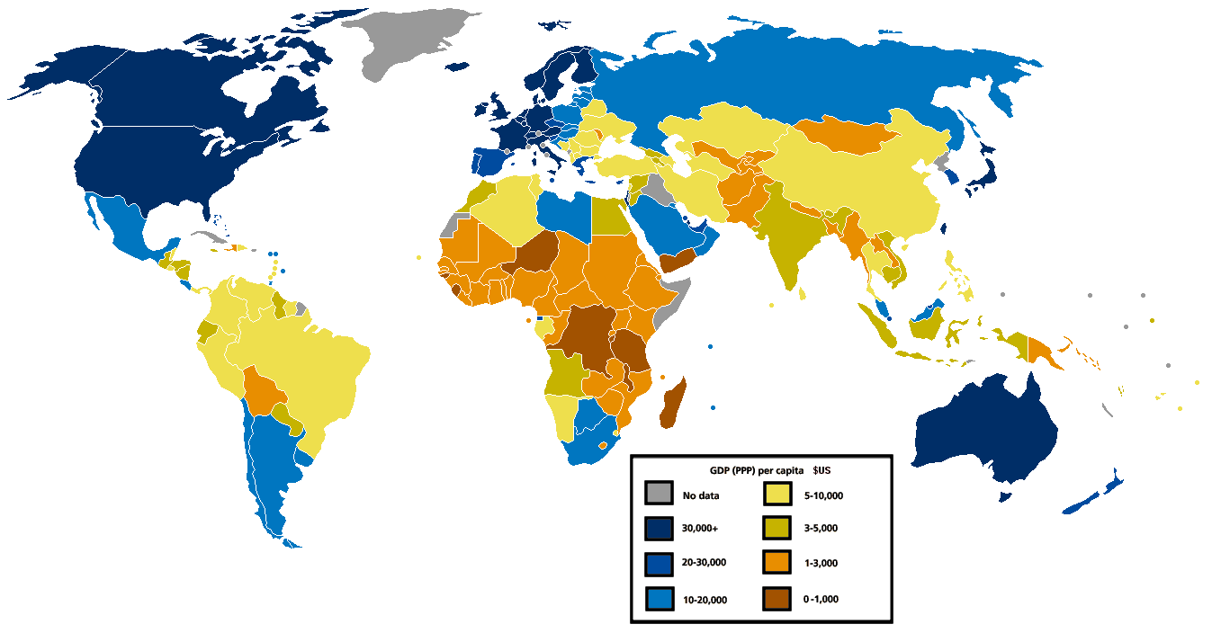 GDP (PPP) per capita. Using wikipedia's world map and information from IMF and wikipedia's article List of countries by GDP (PPP) per capita Made colors less similar so differences could be told between countries better. Made updates to fix mistakes from my previous version.